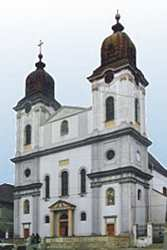 Sfânta Treime Romano-Catholic Metropolitan Cathedral in Blaj